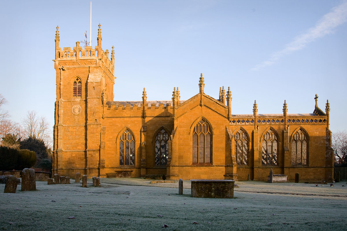 View of St Peter's Church, Kineton, Warwickshire, England.